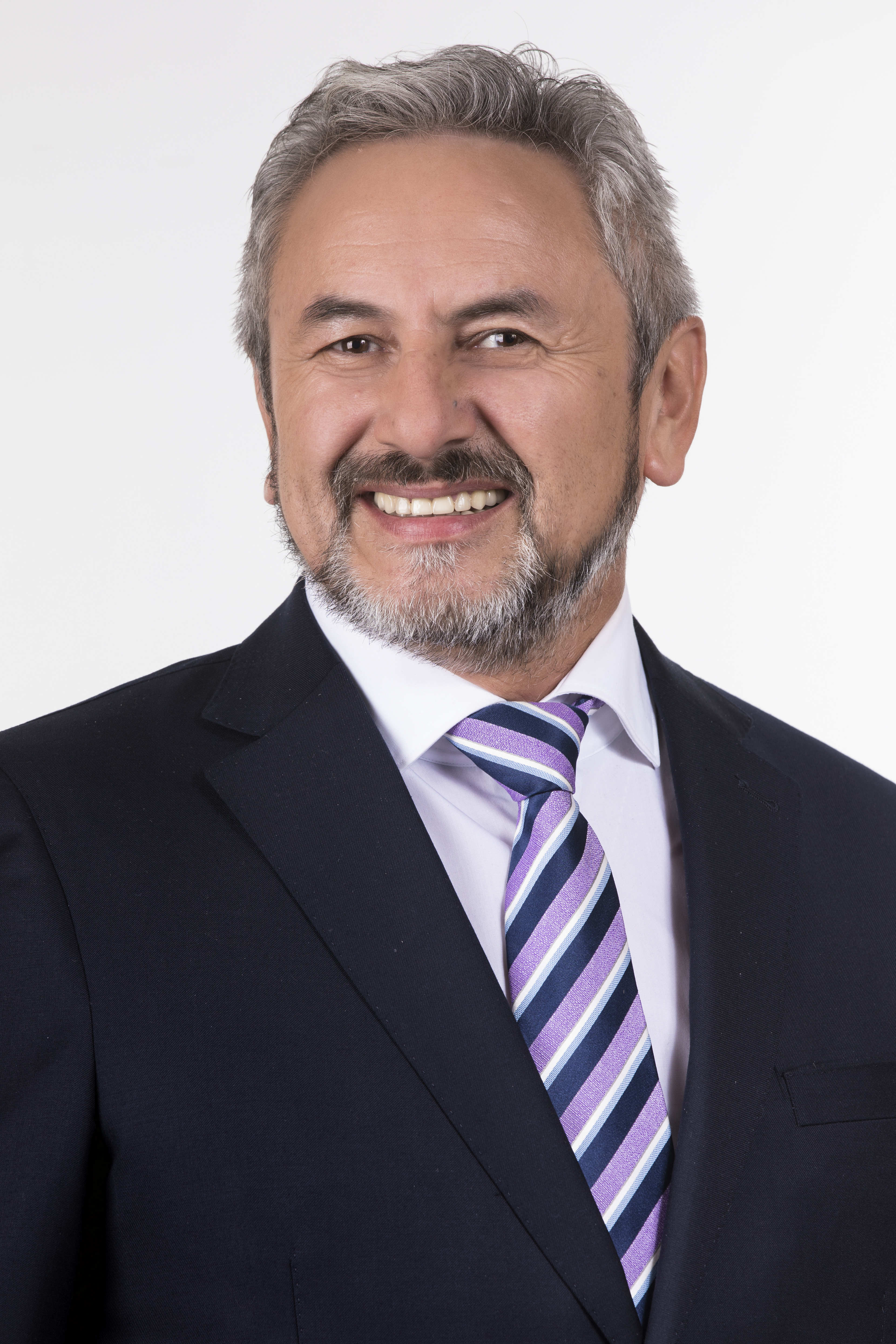 Fotografía oficial de diputados periodo 2018-2022.Fotos: Christel Andler, René Lescornez, Johanna Zárate